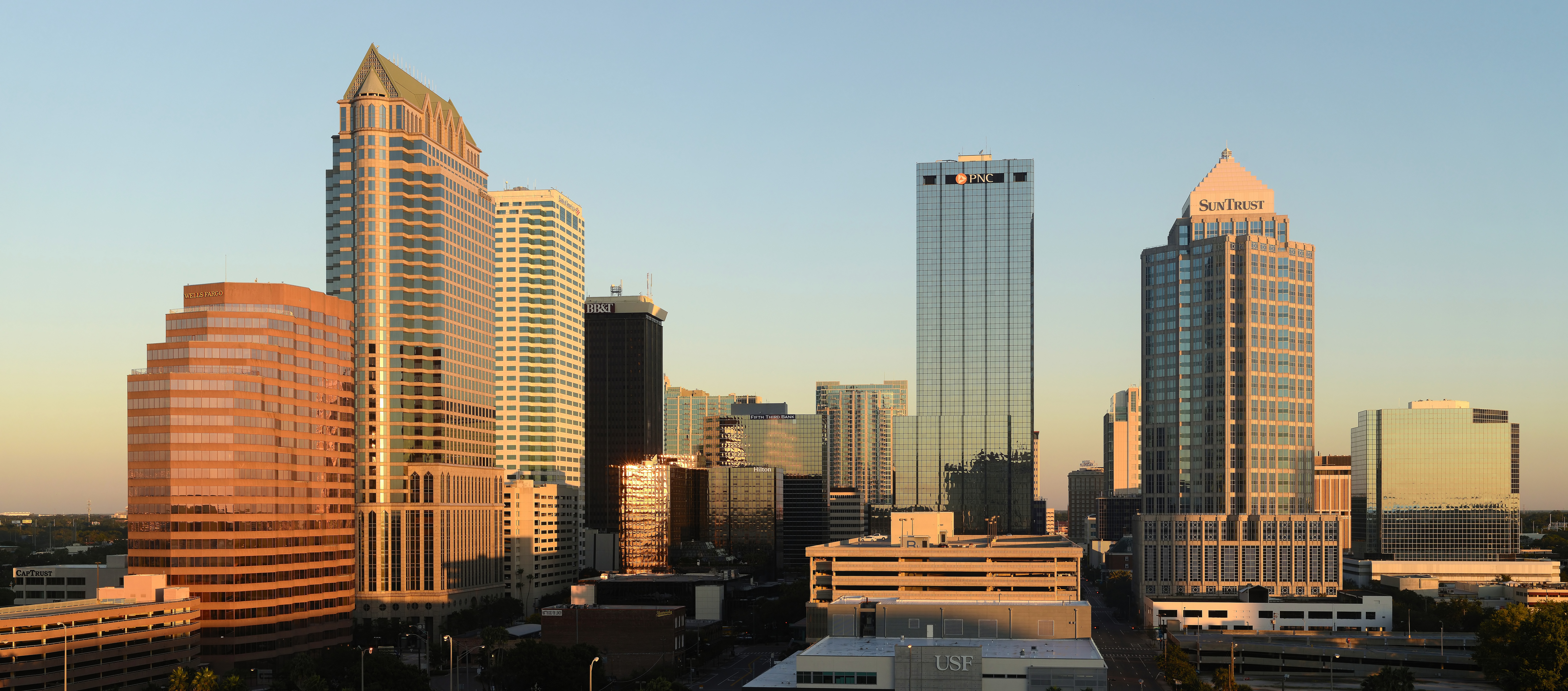 Tampa, Florida. View of downtown to north, from the Embassy Terrace Hotel. Near sunrise.